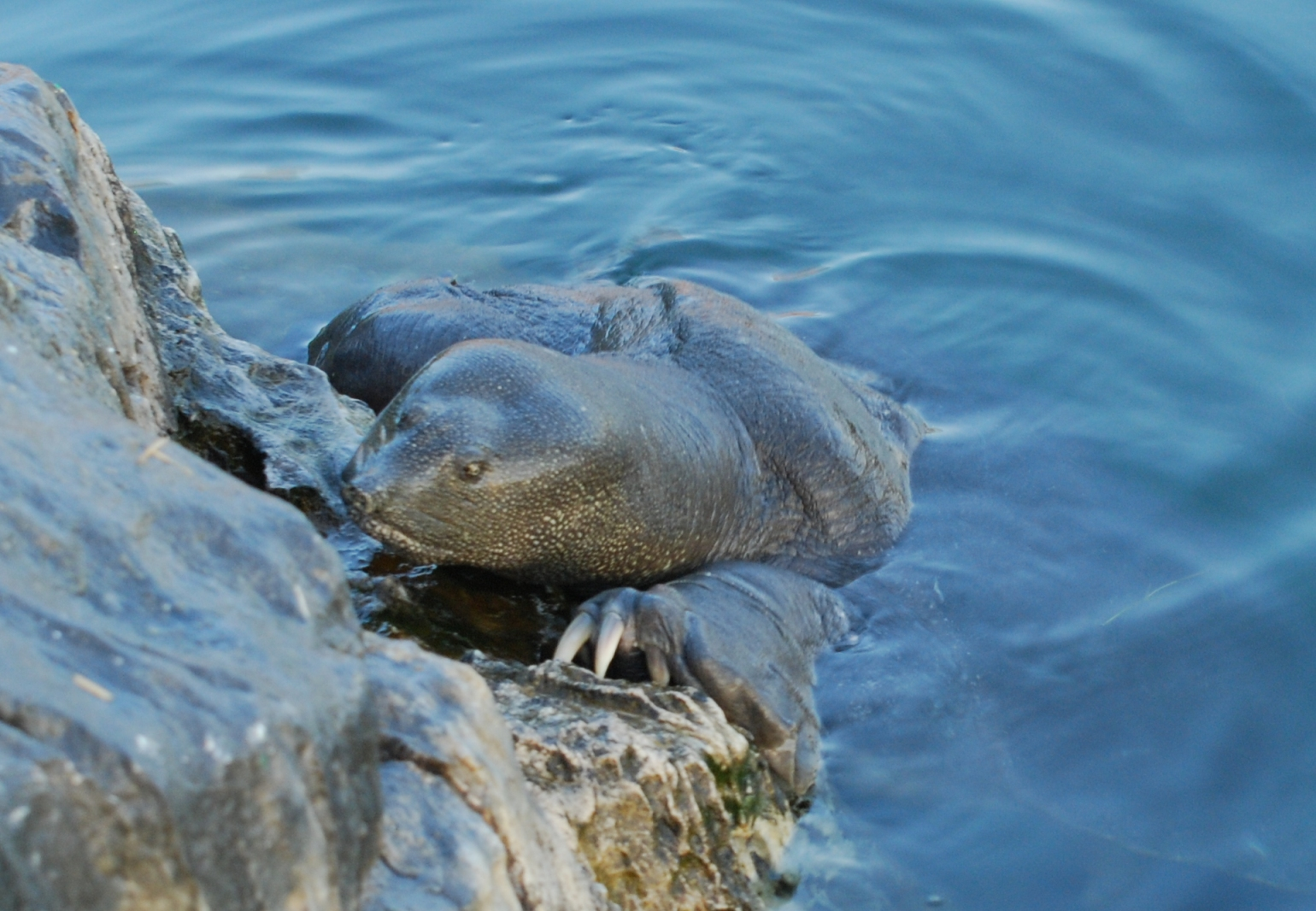 Turtle in River Dalyan